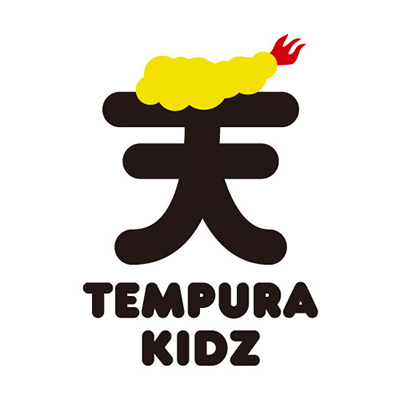 TEMPURA KIDZ LOGO